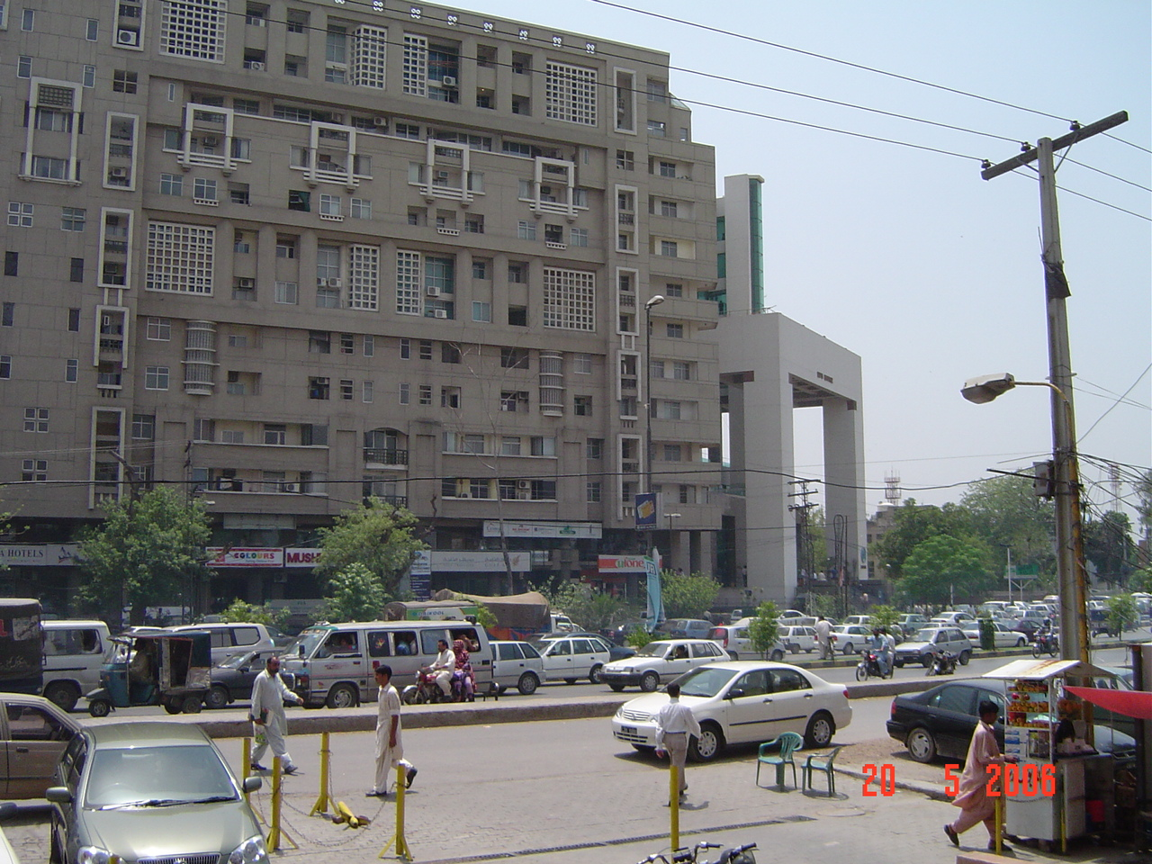 A busy road in Lahore, Pakistan